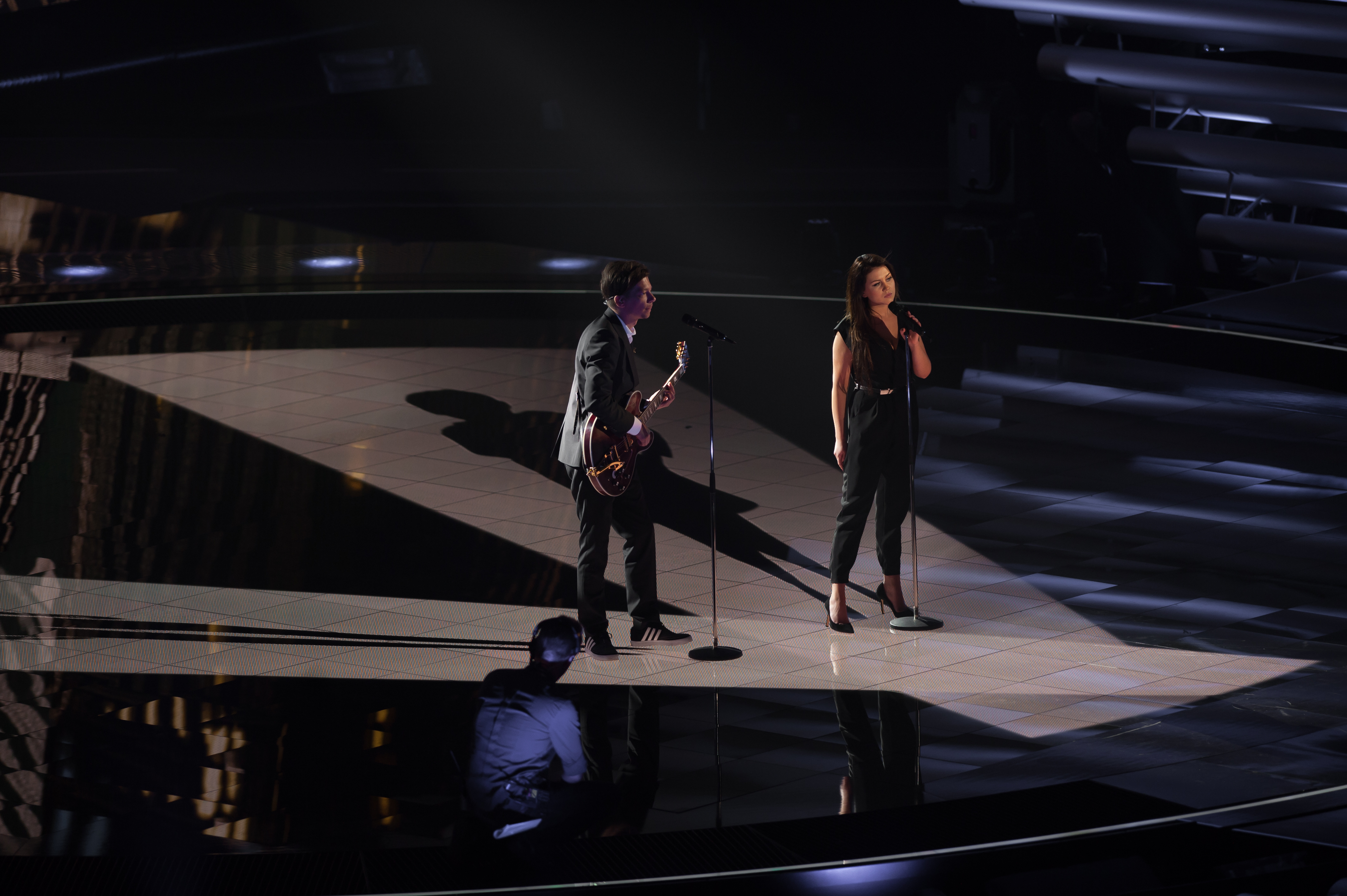 Eurovision Song Contest Vienna 2015: Elina Born & Stig Rästa